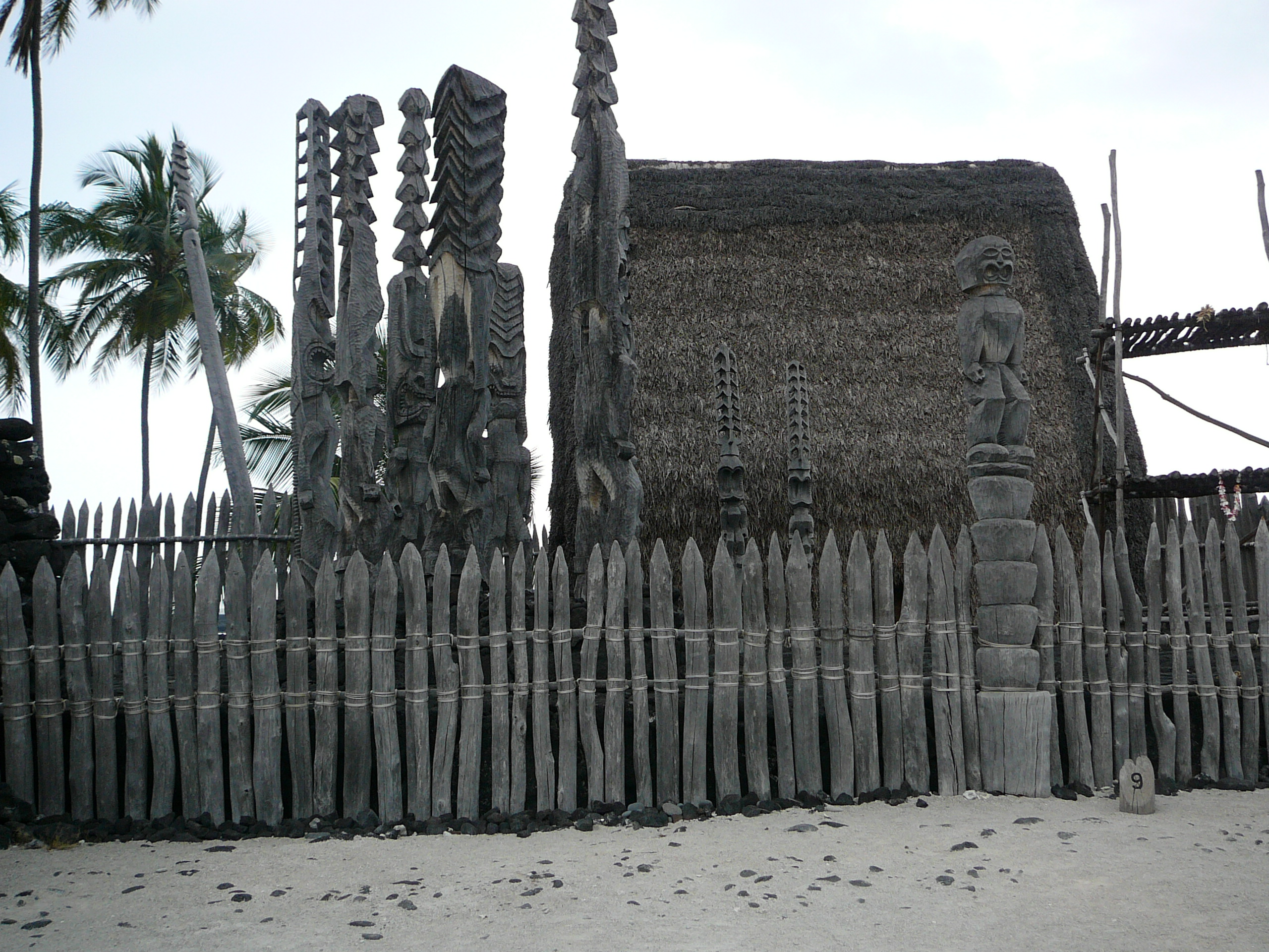 Hale O Keawe Heiau in Pu'uhonua O Honaunau National Historical Park, Hawaii.